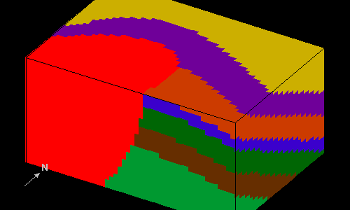 Bloc diagram modelization of a batholith igneous rocks (red), other colors are sedimentary rocks.